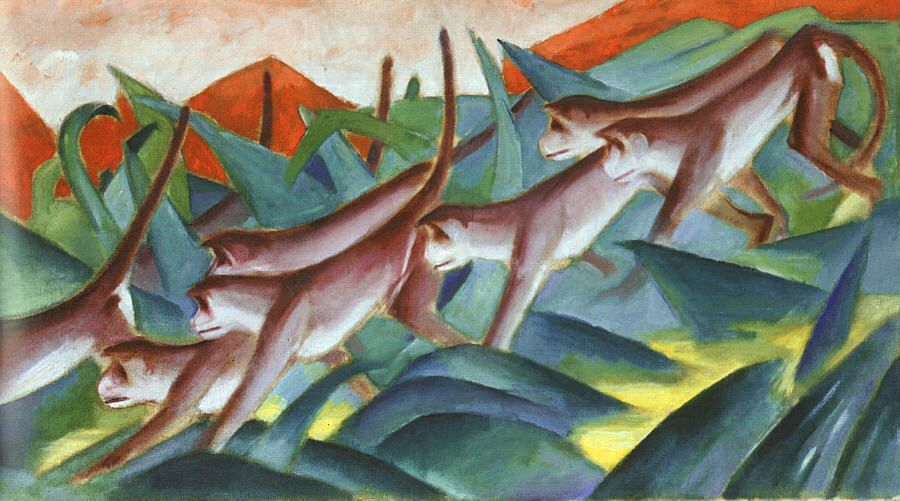 Monkey Frieze (Affenfries)